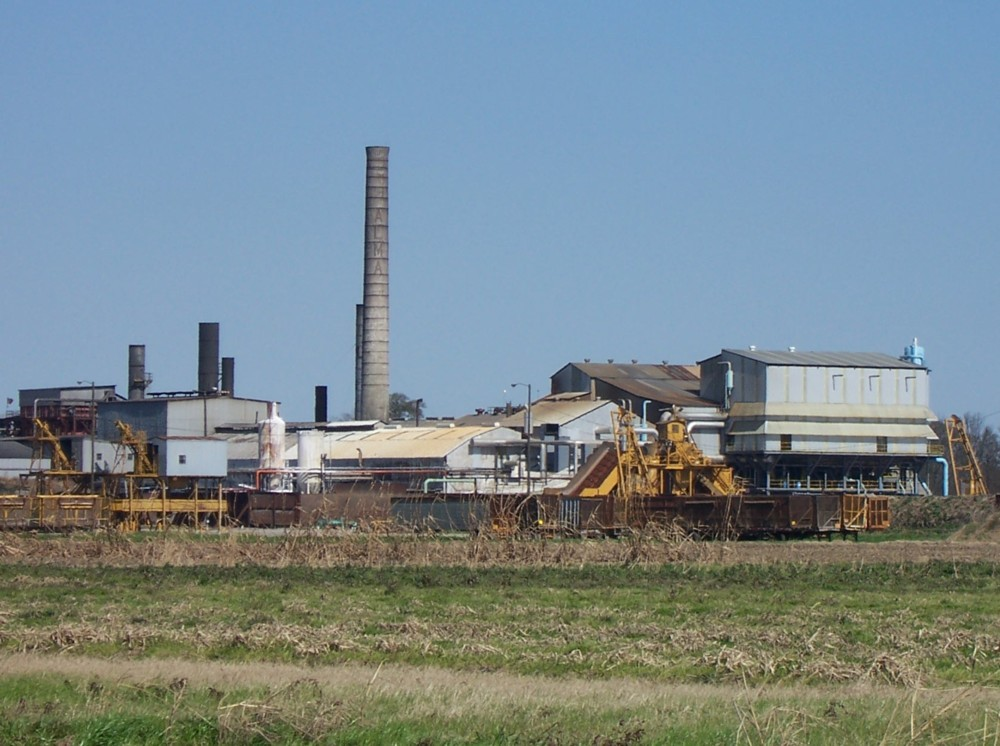 Photo of Alma Plantation Sugar Mill in Alma, Louisiana